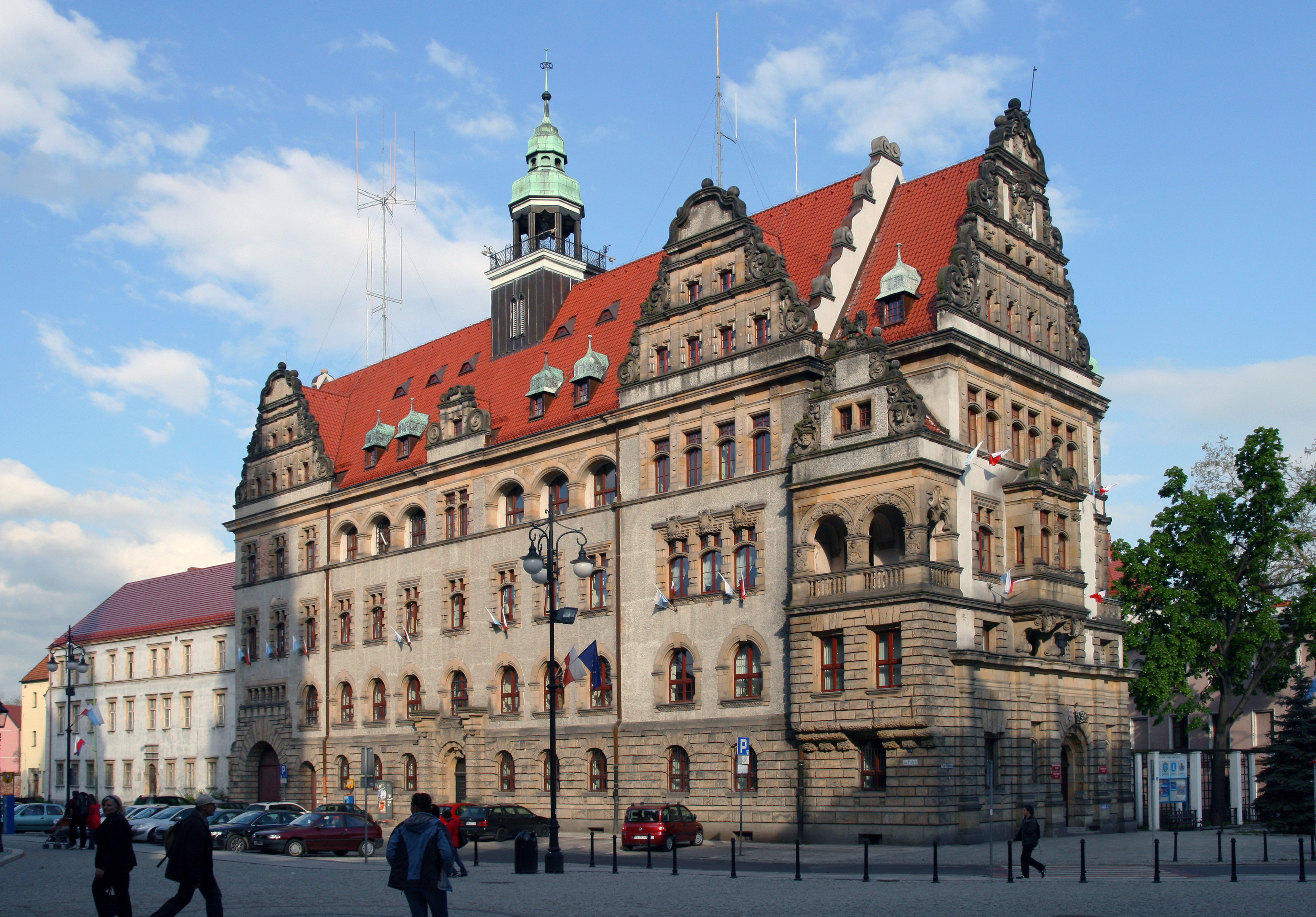 Town Hall in Legnica (Poland).